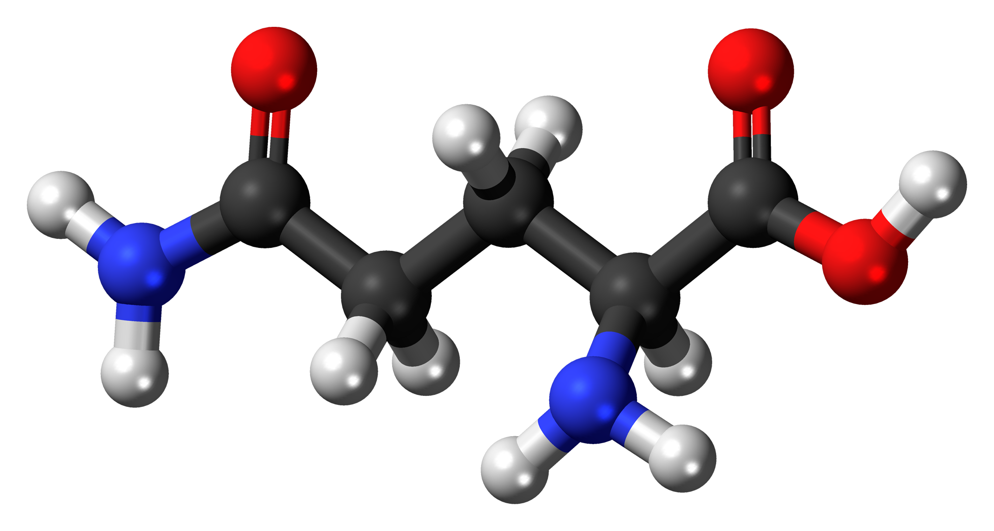 Ball-and-stick model of the glutamine molecule, one of the 20 amino acids used to build proteins. This image shows the L isomer in neutral form. Colour code: Carbon, C: black Hydrogen, H: white Oxygen, O: red Nitrogen, N: blue